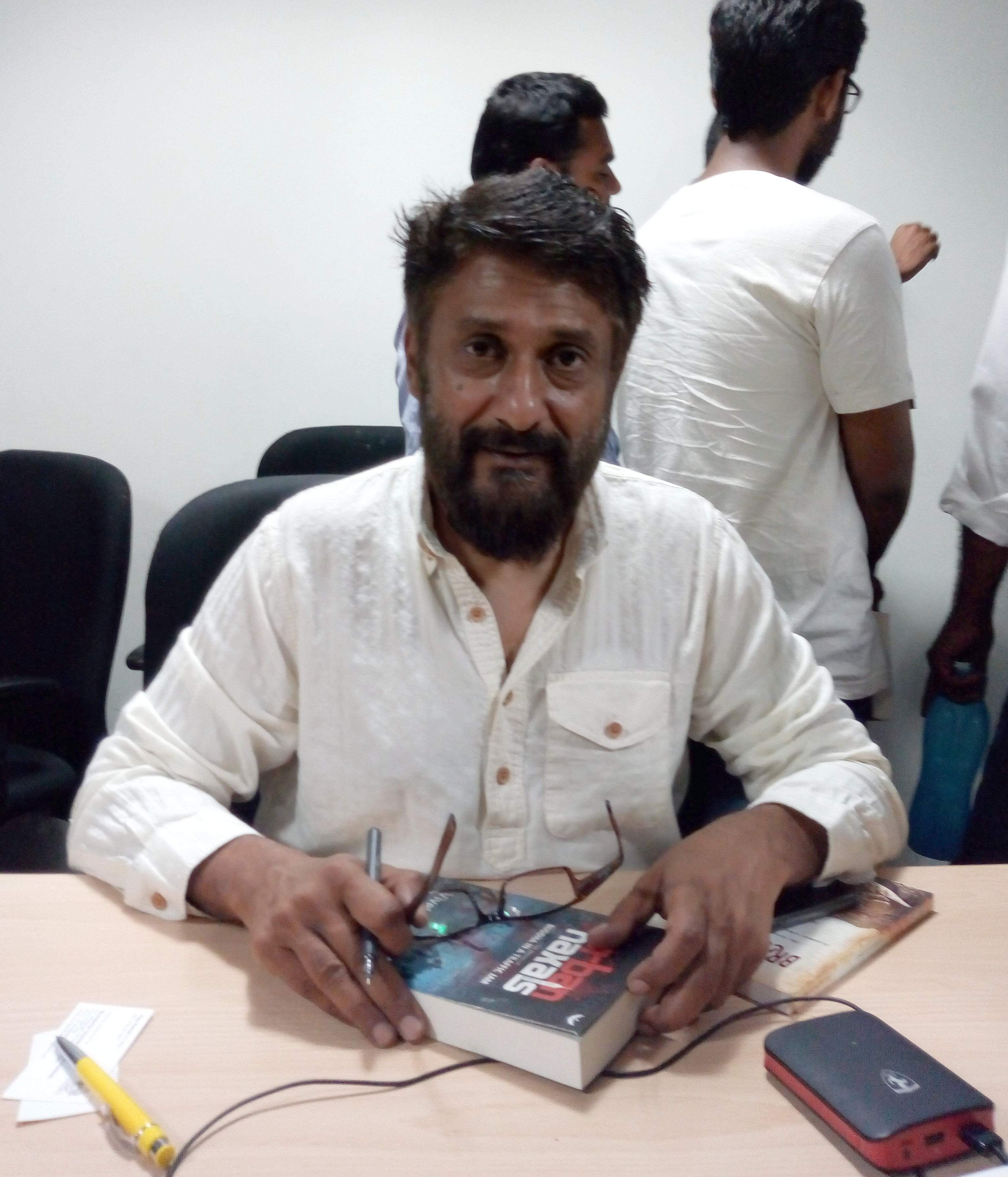 Vivek Agnihotri